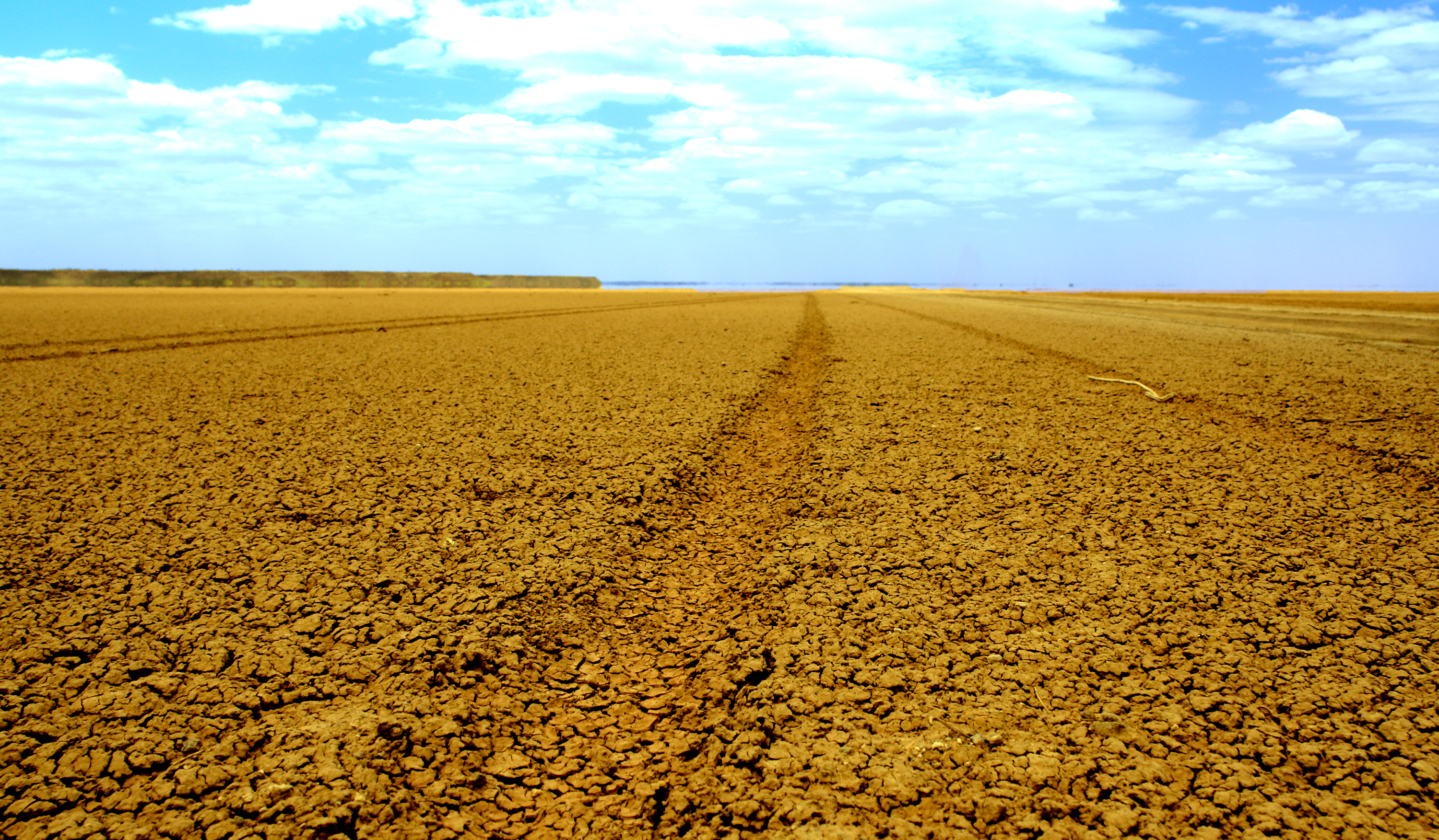 Tracks Chalbi Desert, Marsabit County